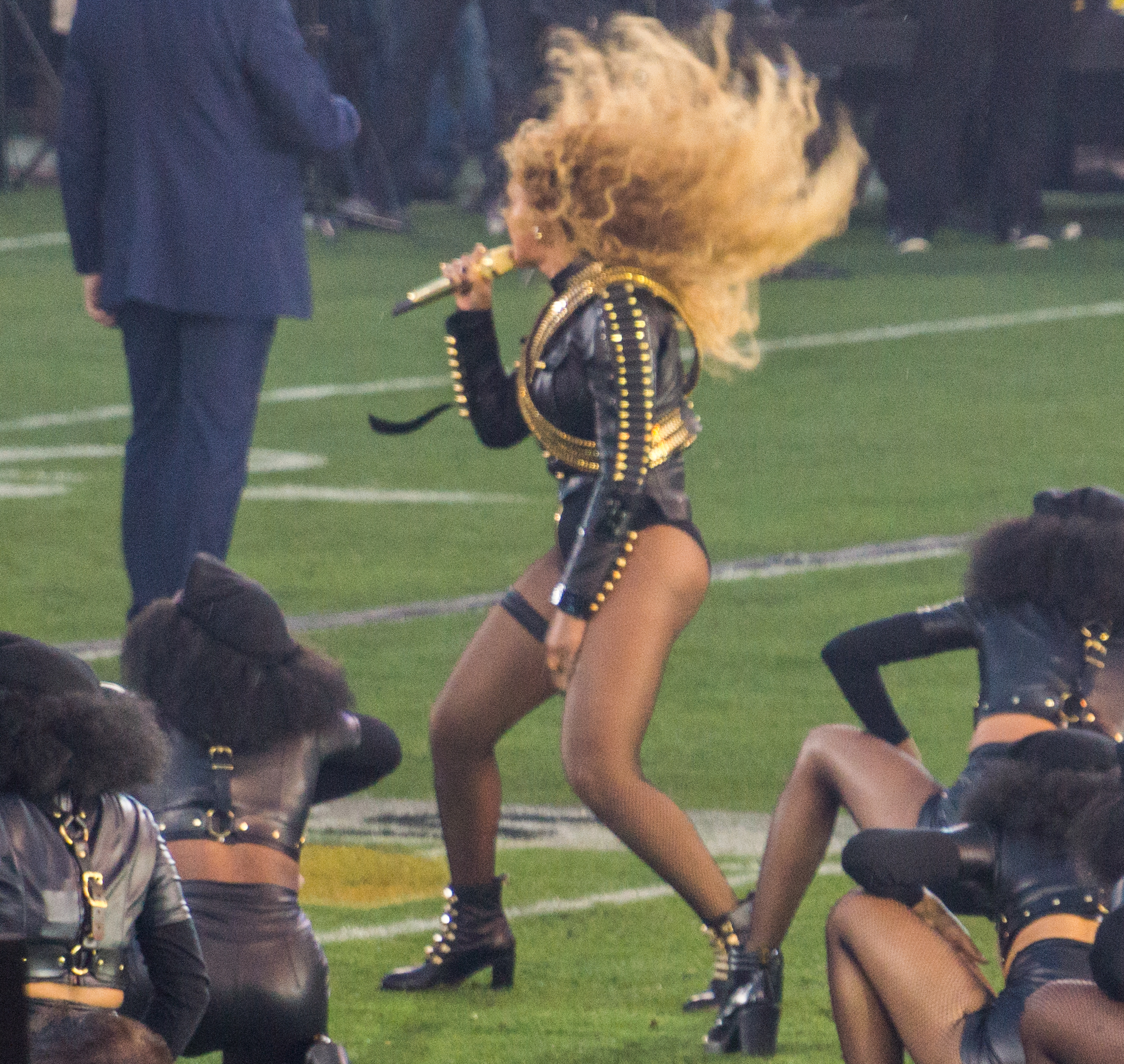 Beyoncé and her backup dancers perform at the Super Bowl 50 halftime show, as a guest appearance for Coldplay, who headlined.